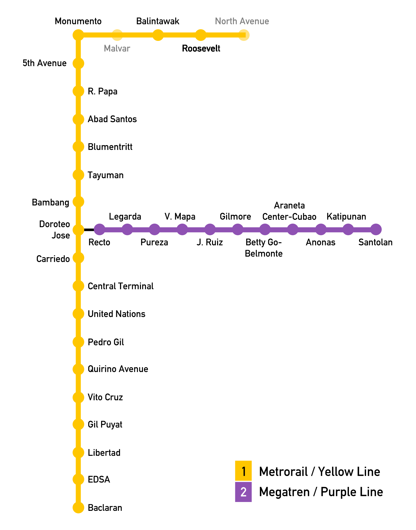 Manila Light Rail System as of October 22, 2010